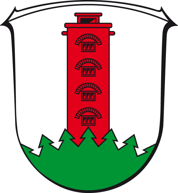 Coat of Arms of Alheim